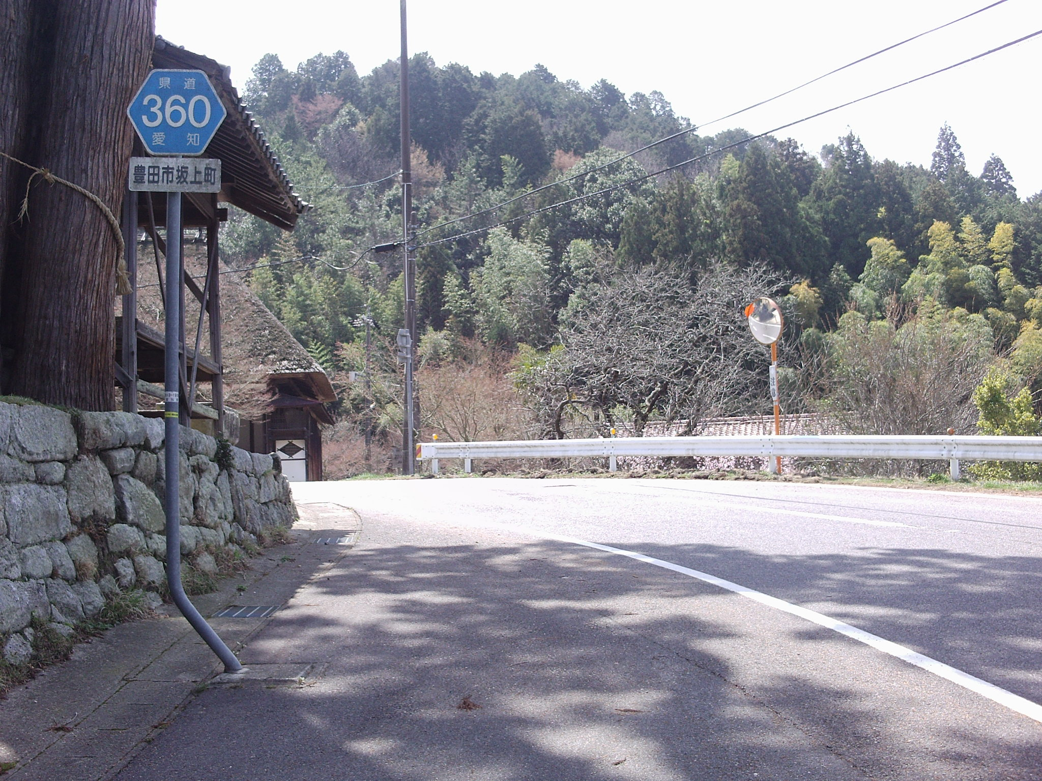 Aichi prefectural road No.360 in Sakauecho, Toyota, Aichi.